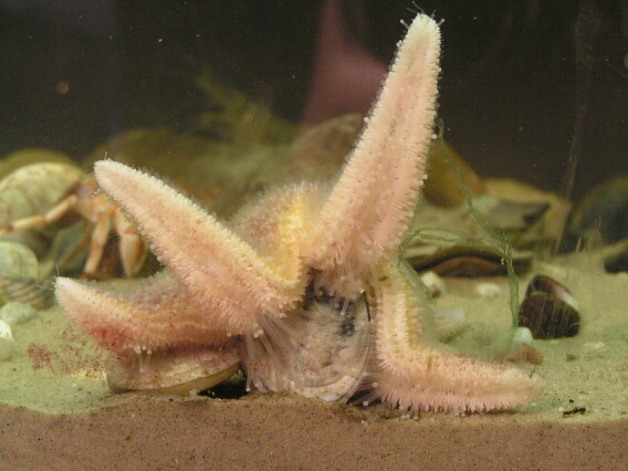 Starfish (Asterias rubens) eating a mussel